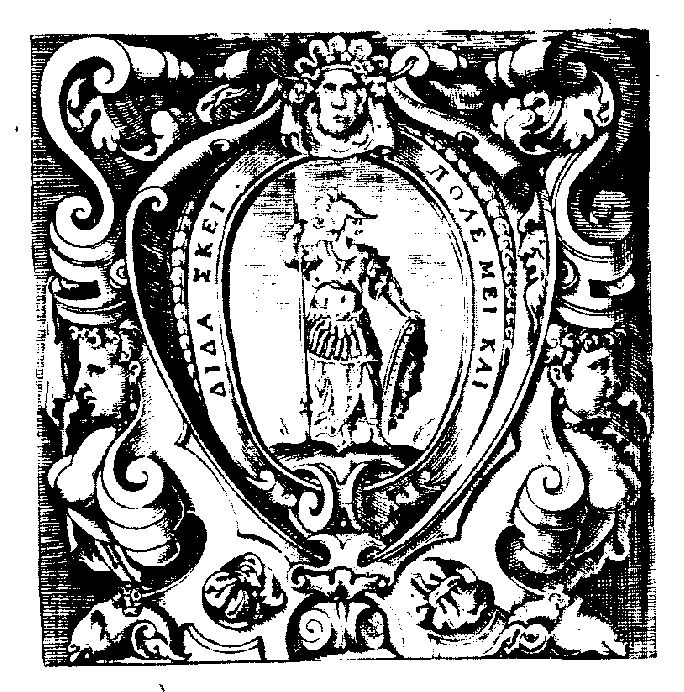 Ciotti's mark